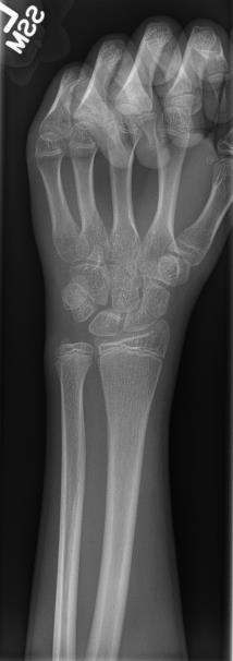 An X-Ray of a left hand and arm.